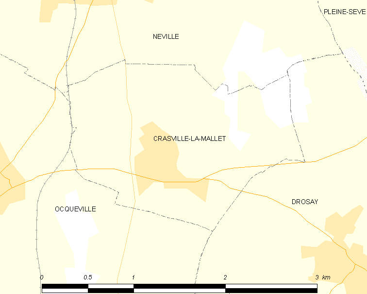 Map of French municipality Crasville-la-Mallet